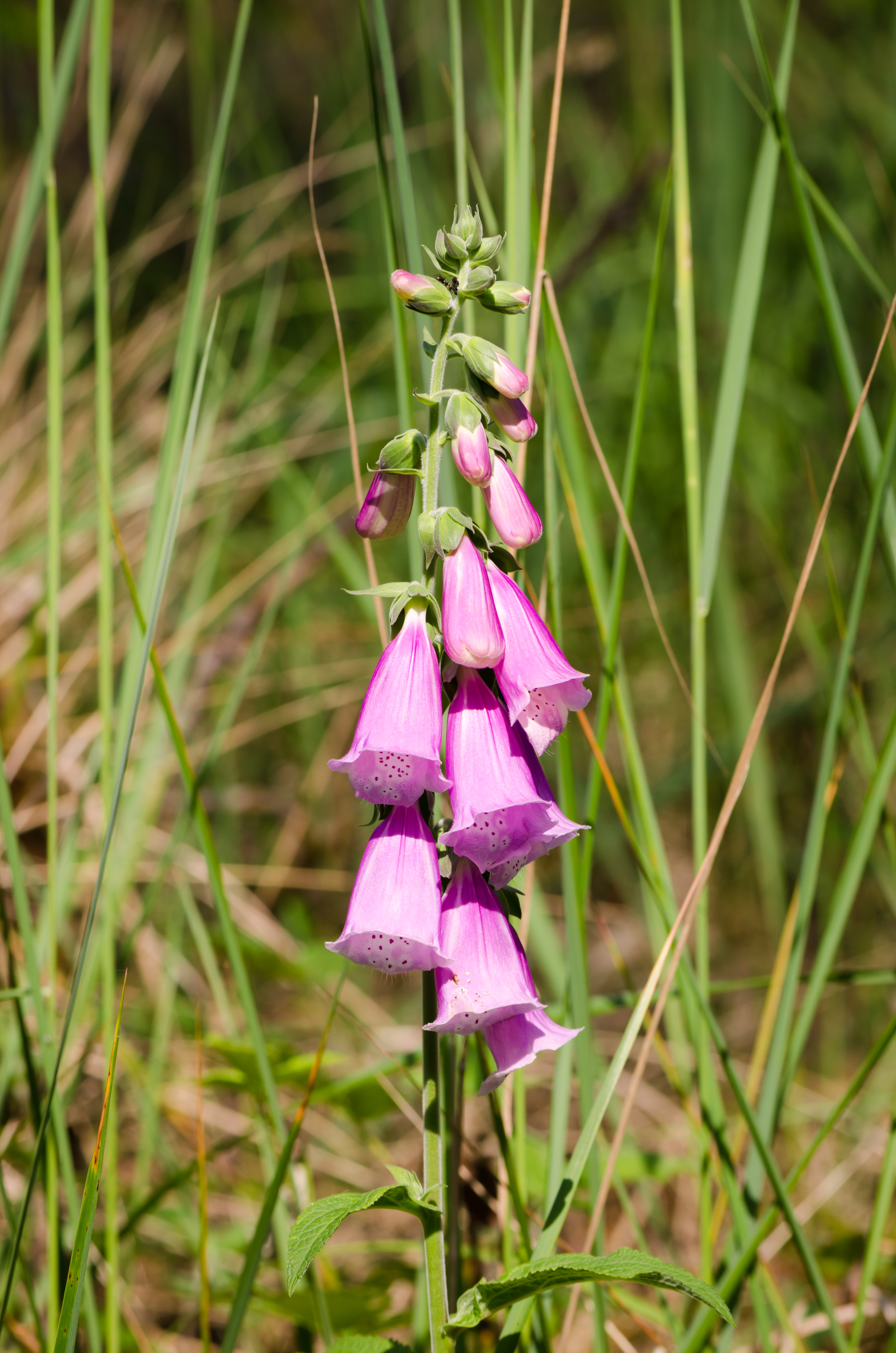 Digitalis purpurea - Purple Foxglove - Hesse - Germany.